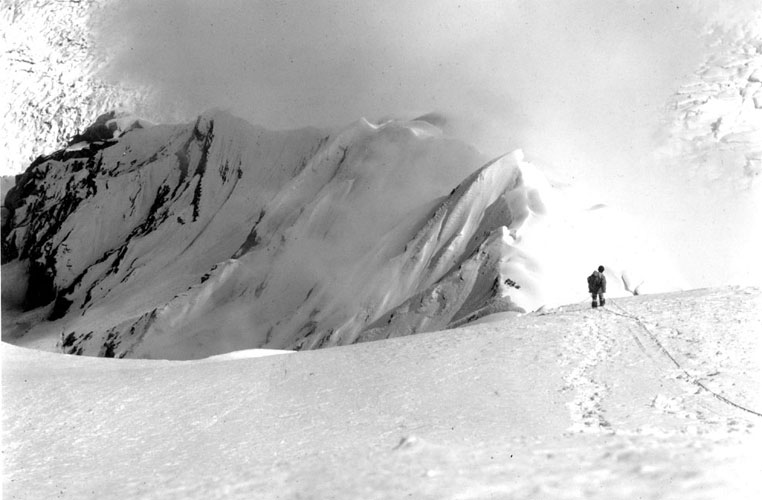 Martin Boysen makes the lonesome descent from Camp 5 to Camp 4 (the tents of Camp 3 are visible) on the South Face of Annapurna, 1970.